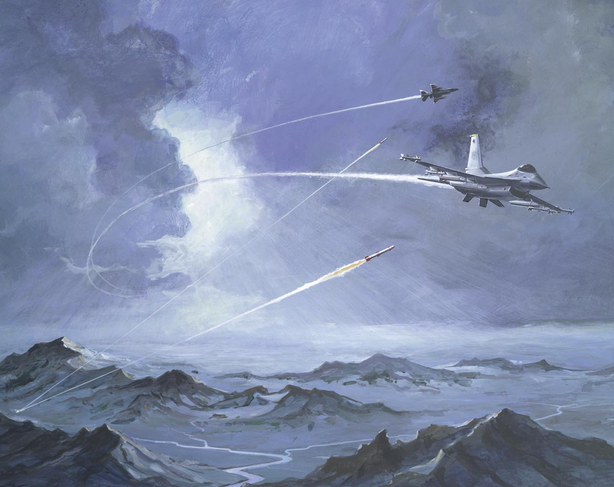 The Soviets deployed numerous strategic and tactical air defense assets in the 1980s that improved capabilities against aircraft flying at medium and high altitudes. The SA-12 missile, shown here tracking U.S. F-16 FALCONs, was capable of intercepting aircraft at high altitudes.